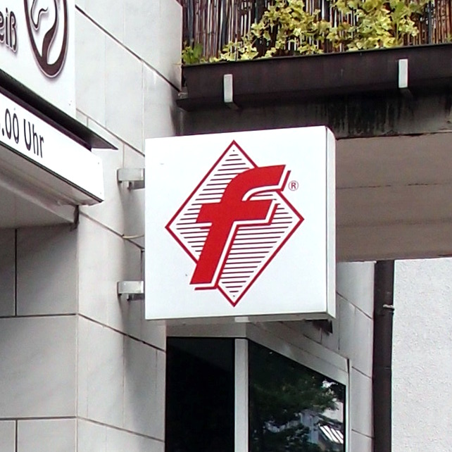 Sign on a horse butcher’s shop in Hamburg, displaying the “f” brand. This emblem is owned by the German association of butchers, a federal-level interest group, and is supposed to serve as a uniform identifier for butcheries.